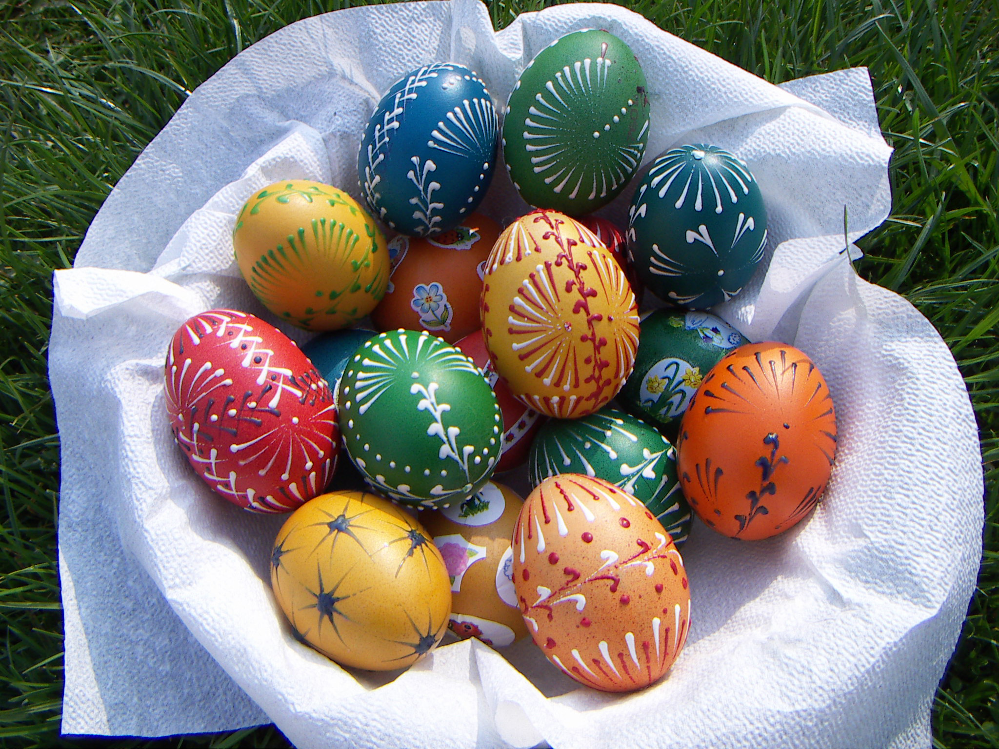 Easter eggs painted with colour wax as made in the Czech Republic